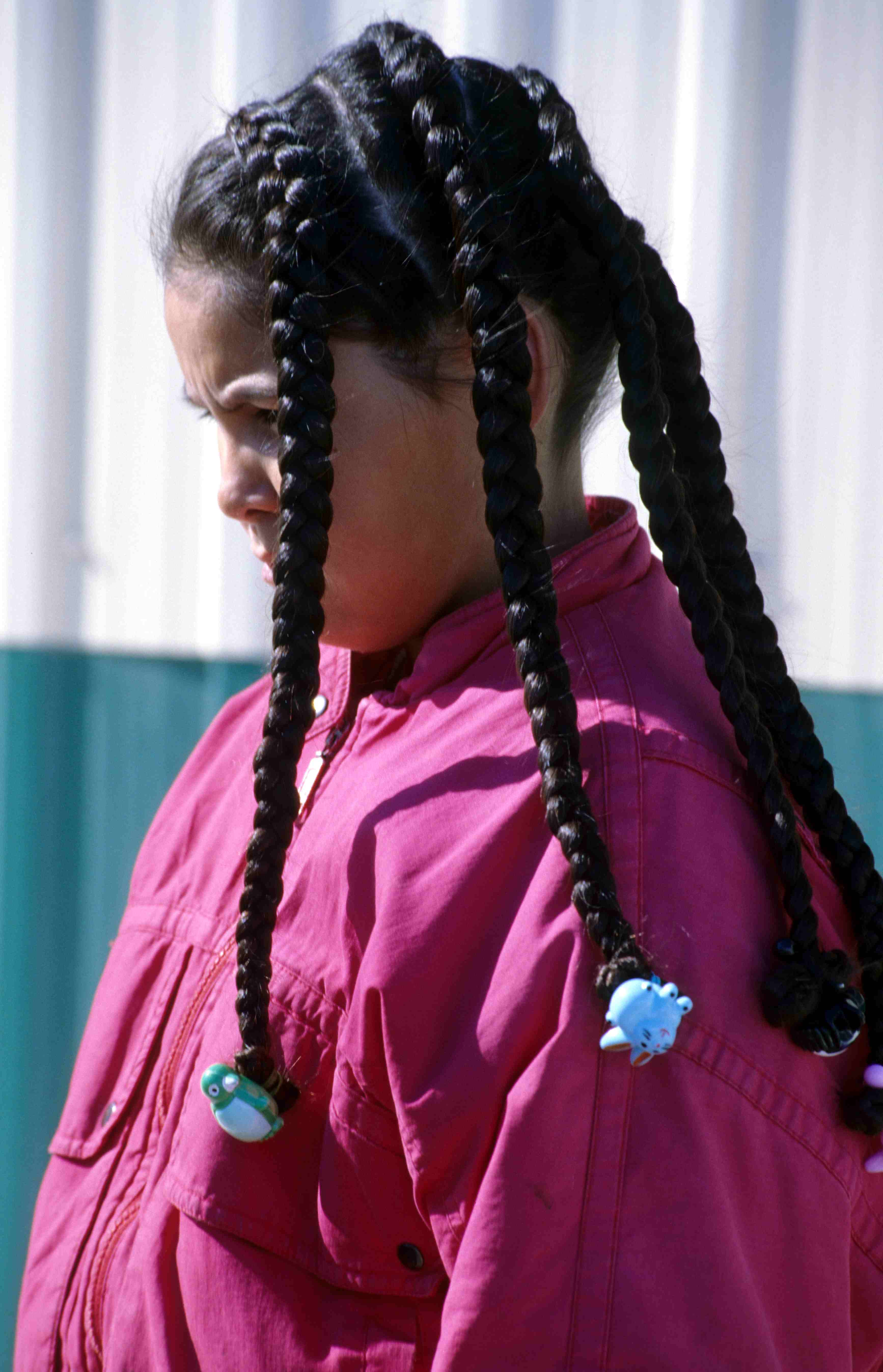 Braided Inuit girl (Nunavut Territory, Canada)